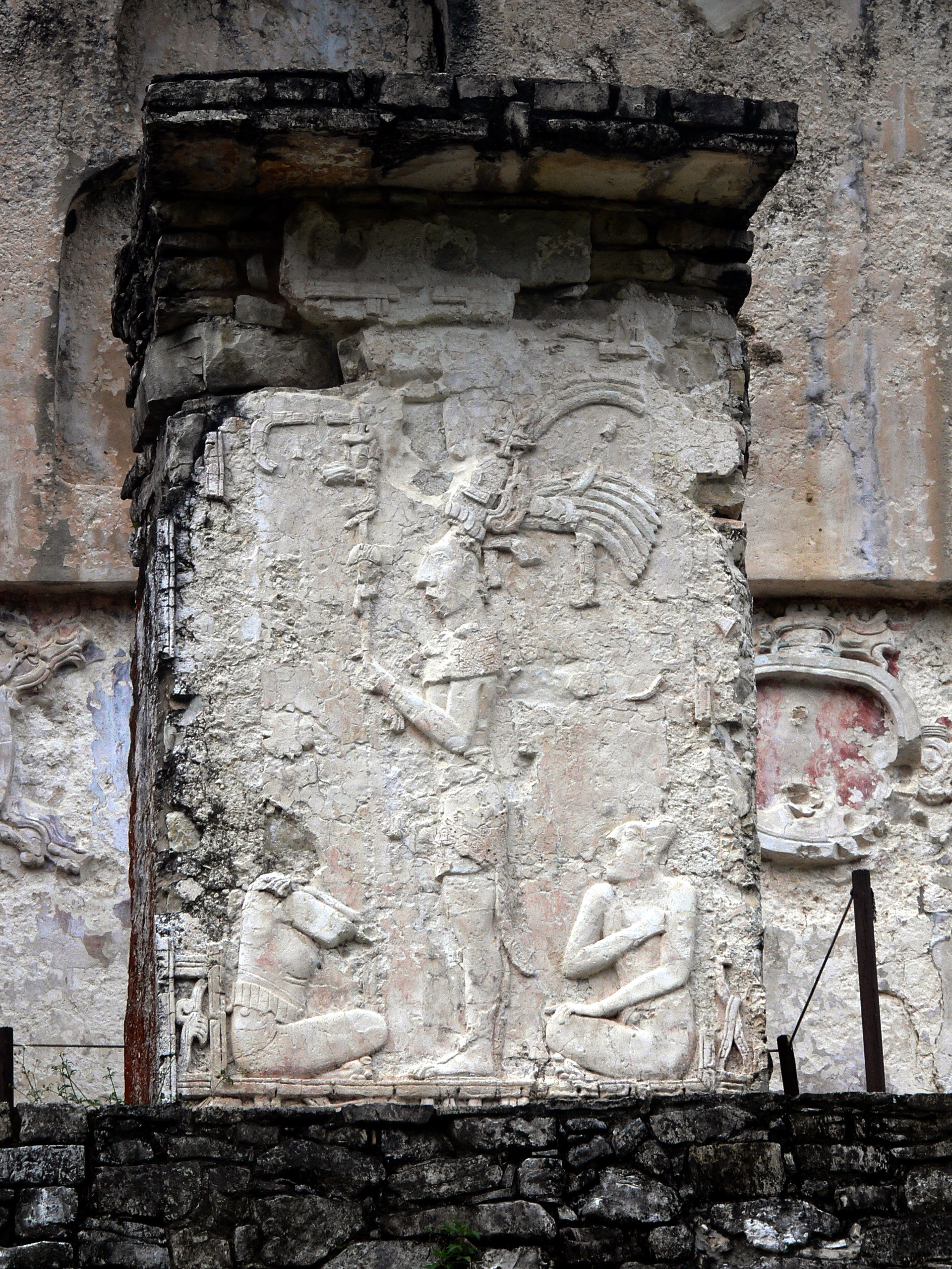 Palenque ( Chiapas ). El Palacio: Stucco-Relief showing some Maya ceremony.